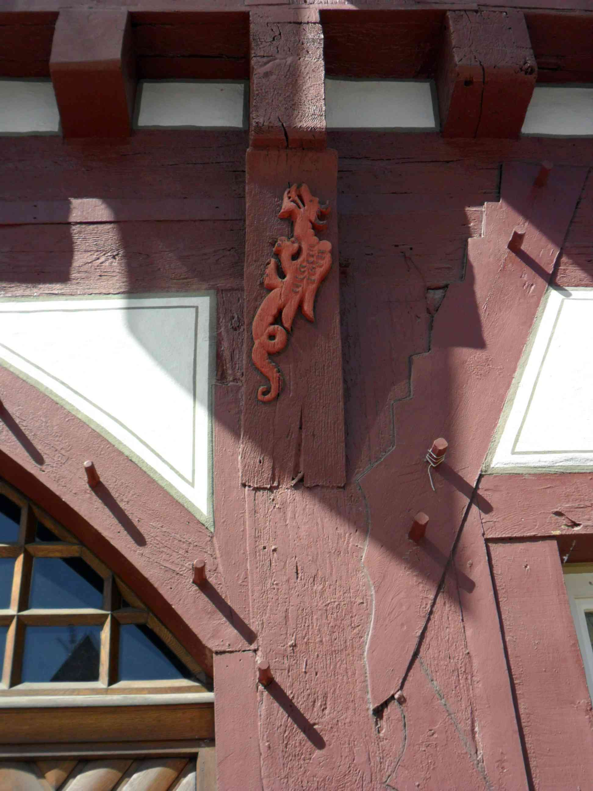 Markgröningen (district of Ludwigsburg; Federal State of Baden-Württemberg; Germany) Town Hall (built in half-timbered manner) – gable front in the East – detail of a Dragoon in wood cutters art above the main portal